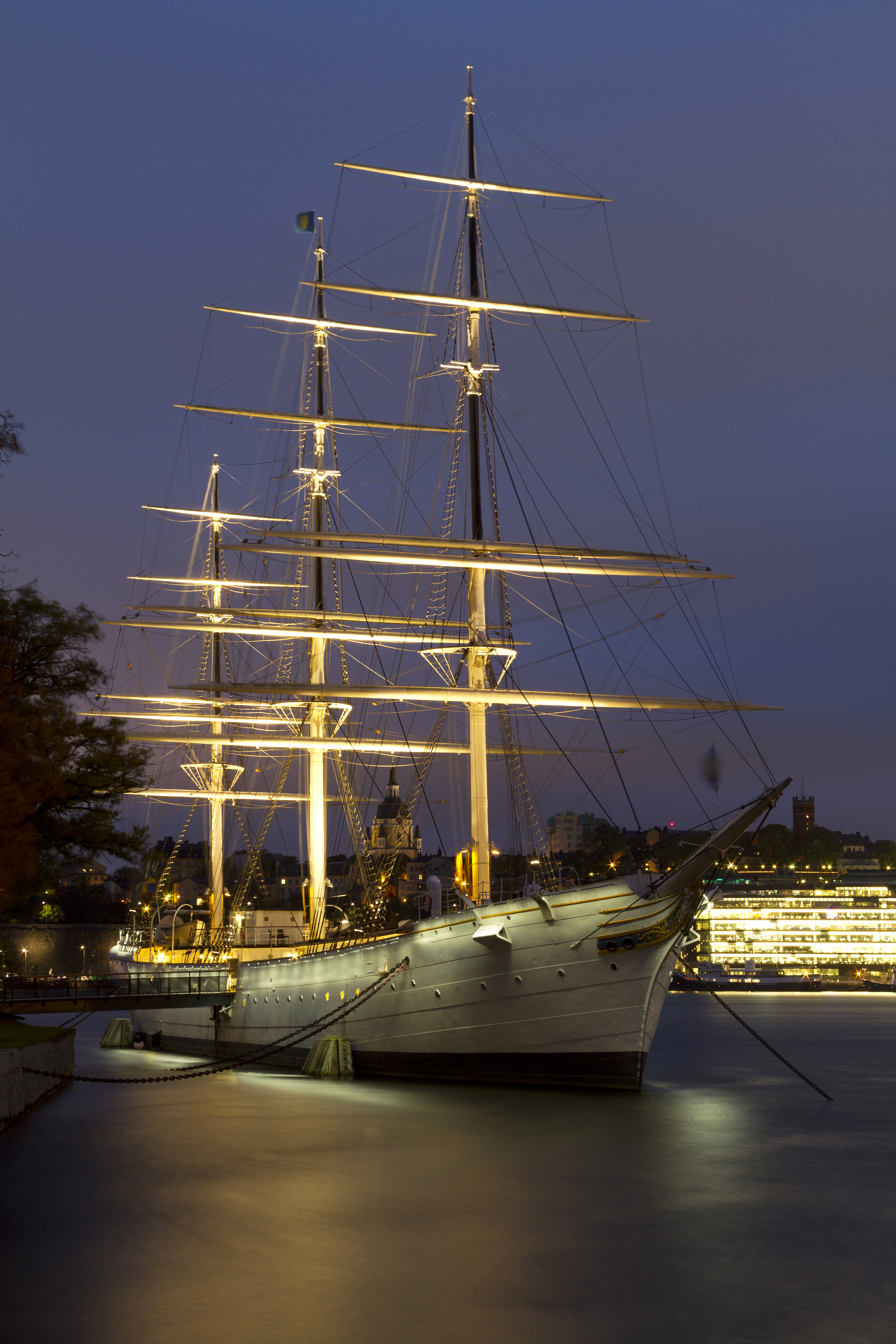 Af Chapman at Skeppsholmen in Stockholm City. This ship is serving as a hostel. It is shown an very early morning in 2012.